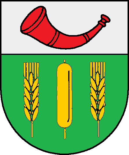 Coat of arms of the municipality Westerhorn in Schleswig-Holstein, Germany.